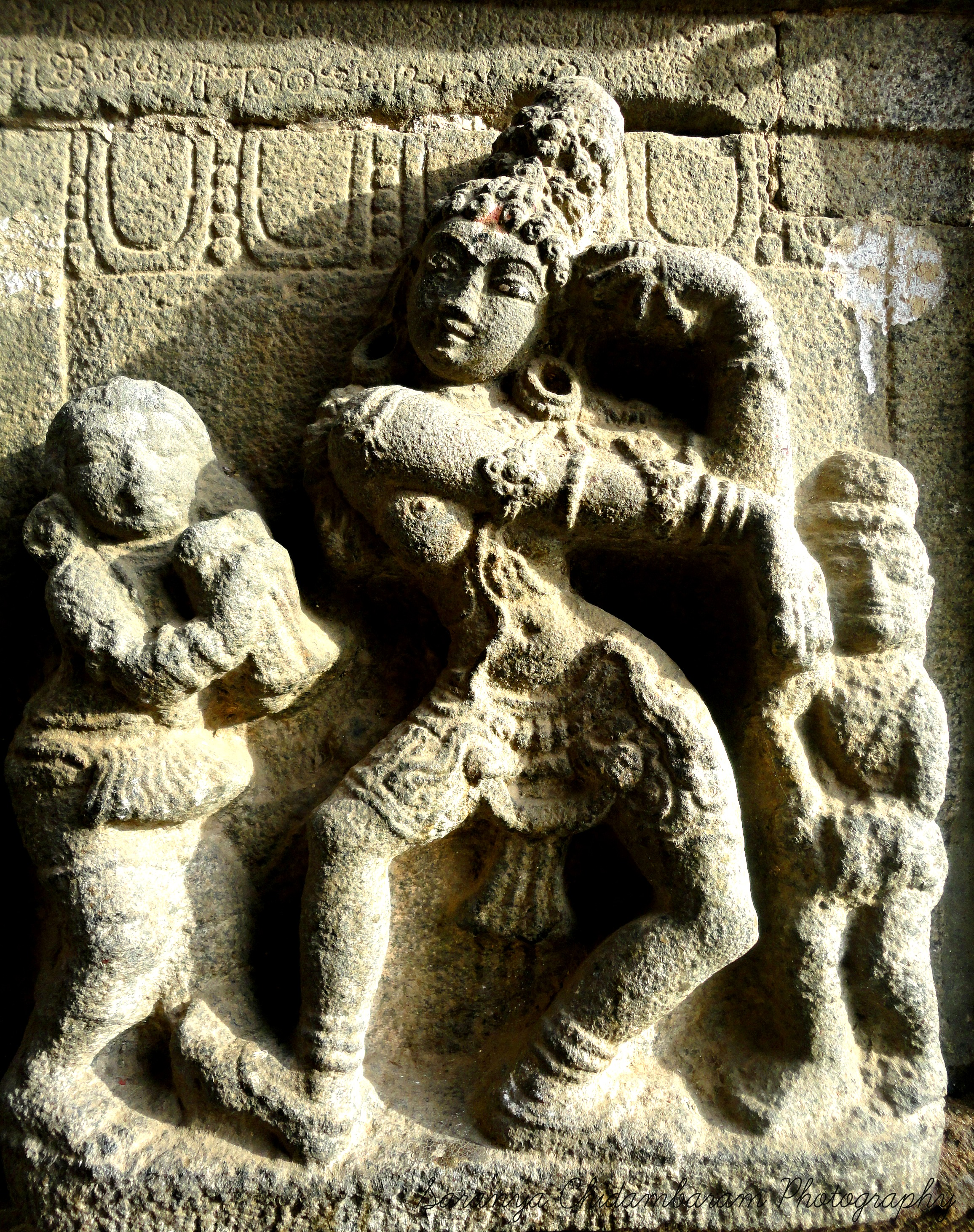 a close shot of one of the damsels from the wall of damsels with different postures of bharathanatyam